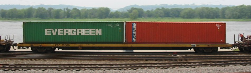 FEC 37066, a flat car carrying two containers. The car is in a train passing Glen Haven, on the Mississippi River, June 4, 2005. Photo by Sean Lamb (User:Slambo)